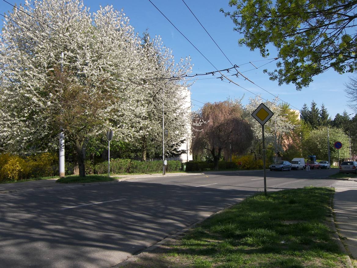 street Řezáčova, city Brno, part Komín, spring, flowering cherry